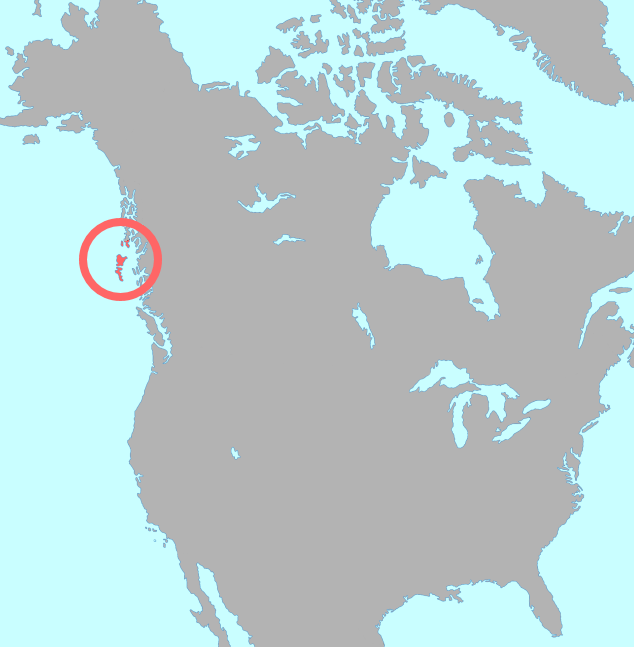 distribution of Haida language